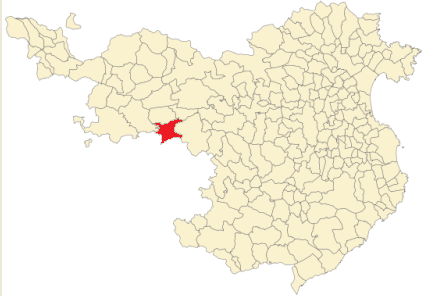 Vidrá